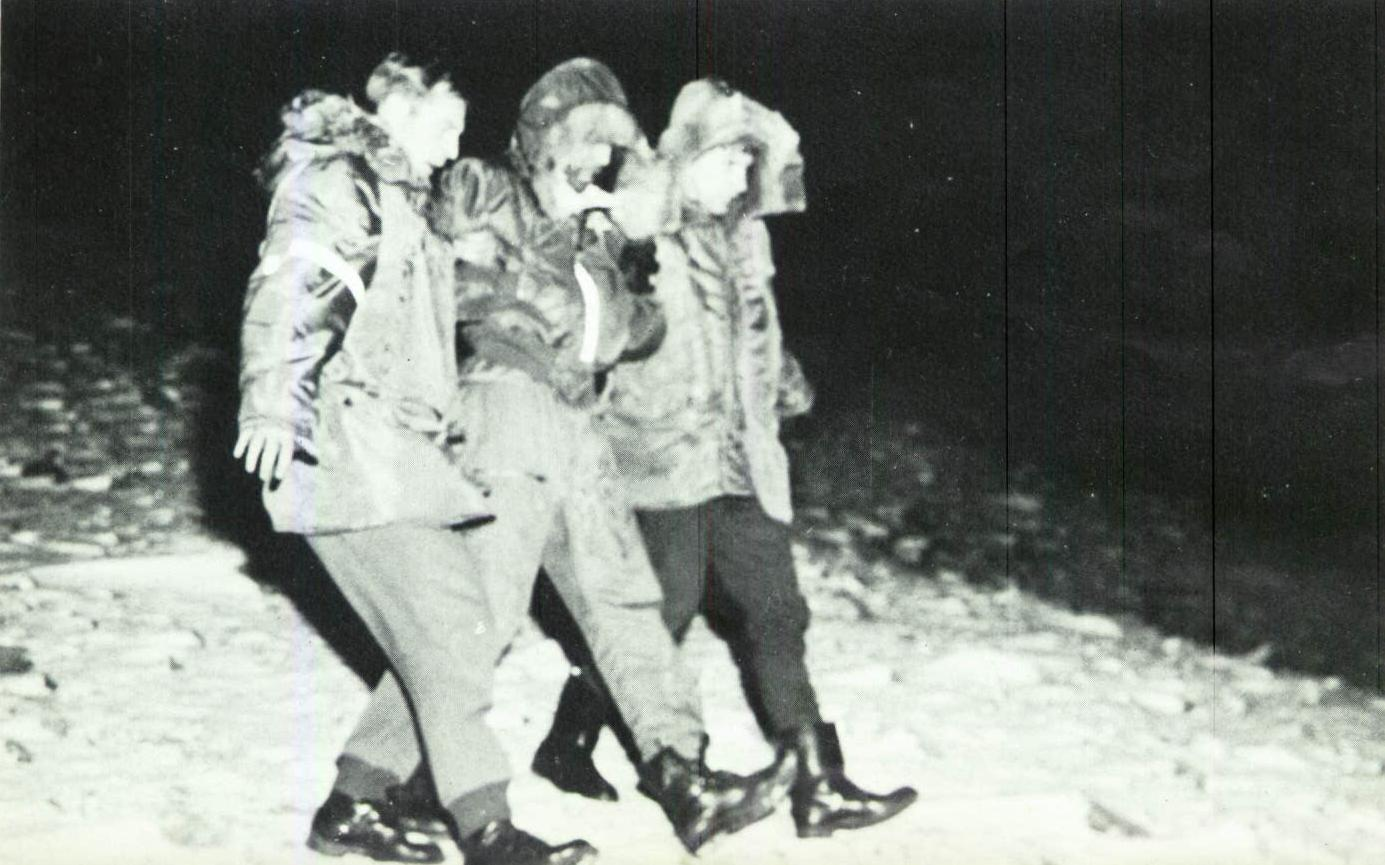 The gunner is rescued after ejecting from a B-52 that crashed new Thule Air Base on 21 January 1968